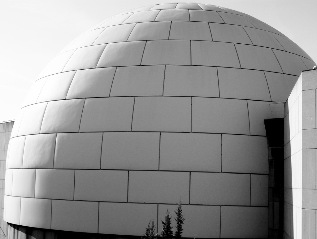 Partial view of the Madrid Planetarium (Spain).